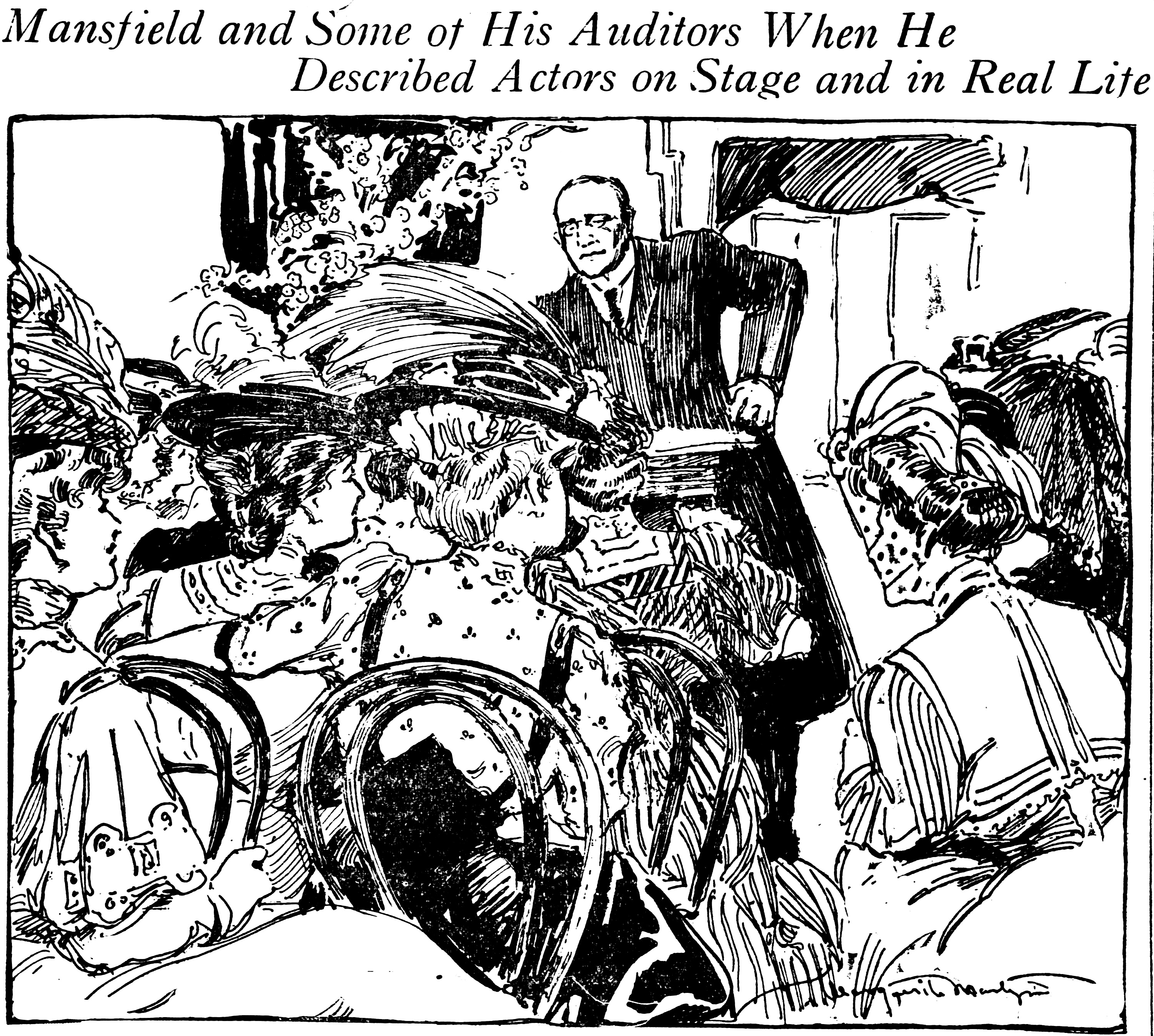 Actor Richard Mansfield lectures to a group of women in St. Louis, Missouri, in May 1906.